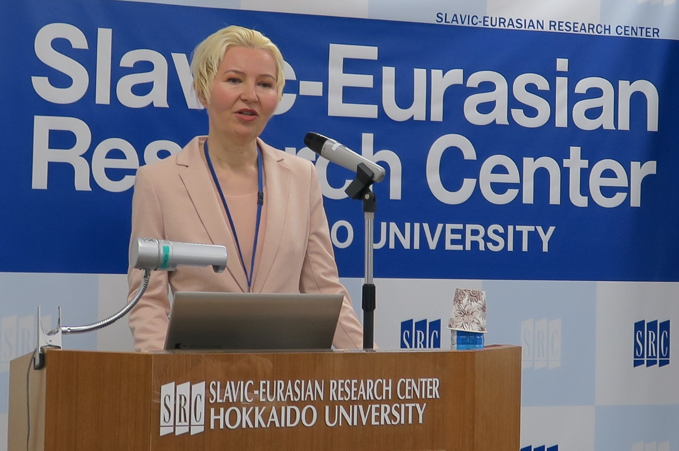 Snježana Kordić as keynote speaker about "Ideology against language" at the Slavic-Eurasian Research Center 2018 International Symposium (Hokkaido University)